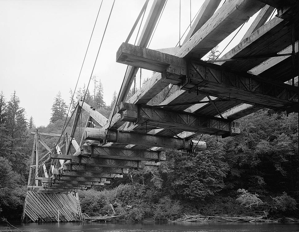 The Chow Chow Bridge near Taholah. Original caption: "General view of underside of bridge showing timber floor beams. - Chow Chow Suspension Bridge, Spanning Quinault River, Taholah, Grays Harbor County, WA"